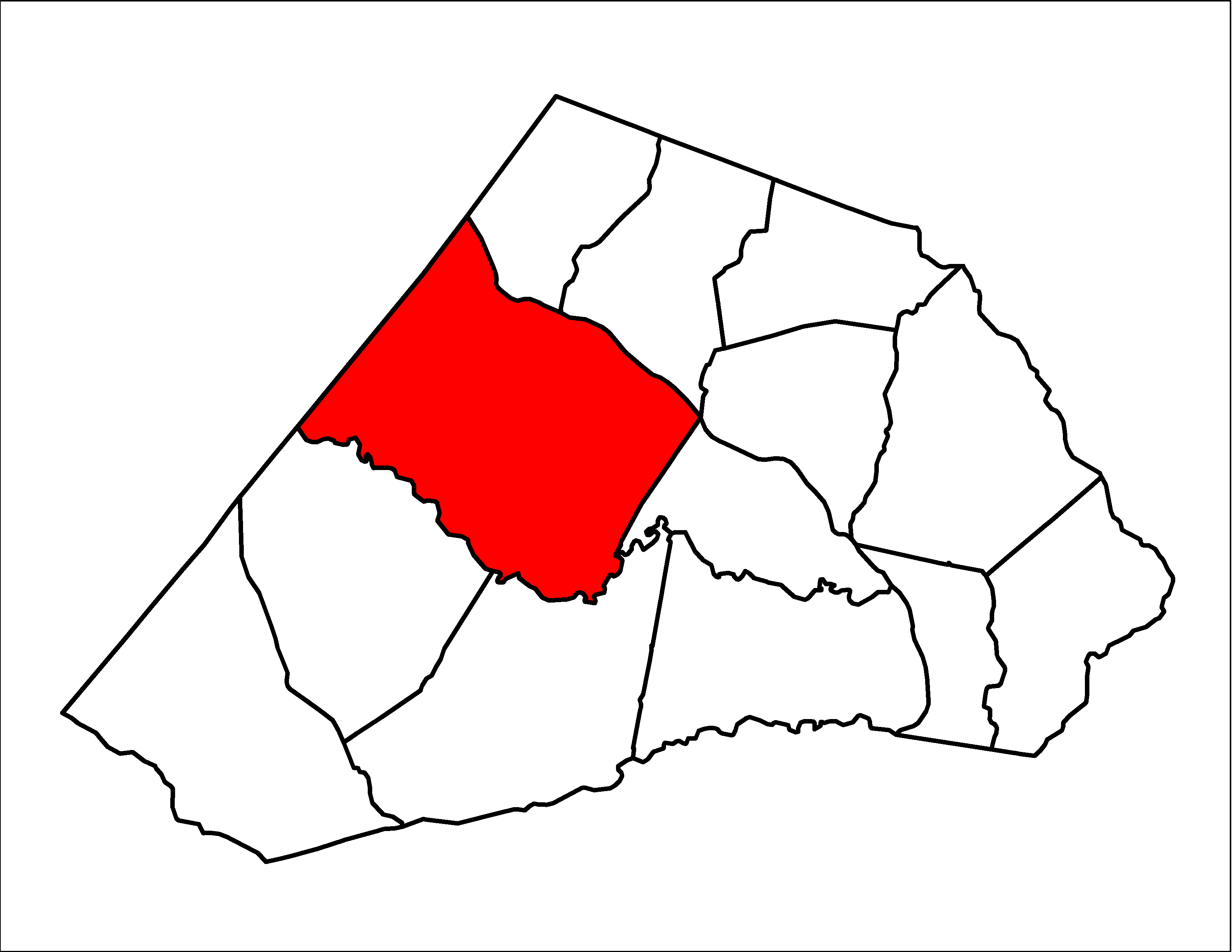 Map of Upper Little River Township in Harnett County, N.C.